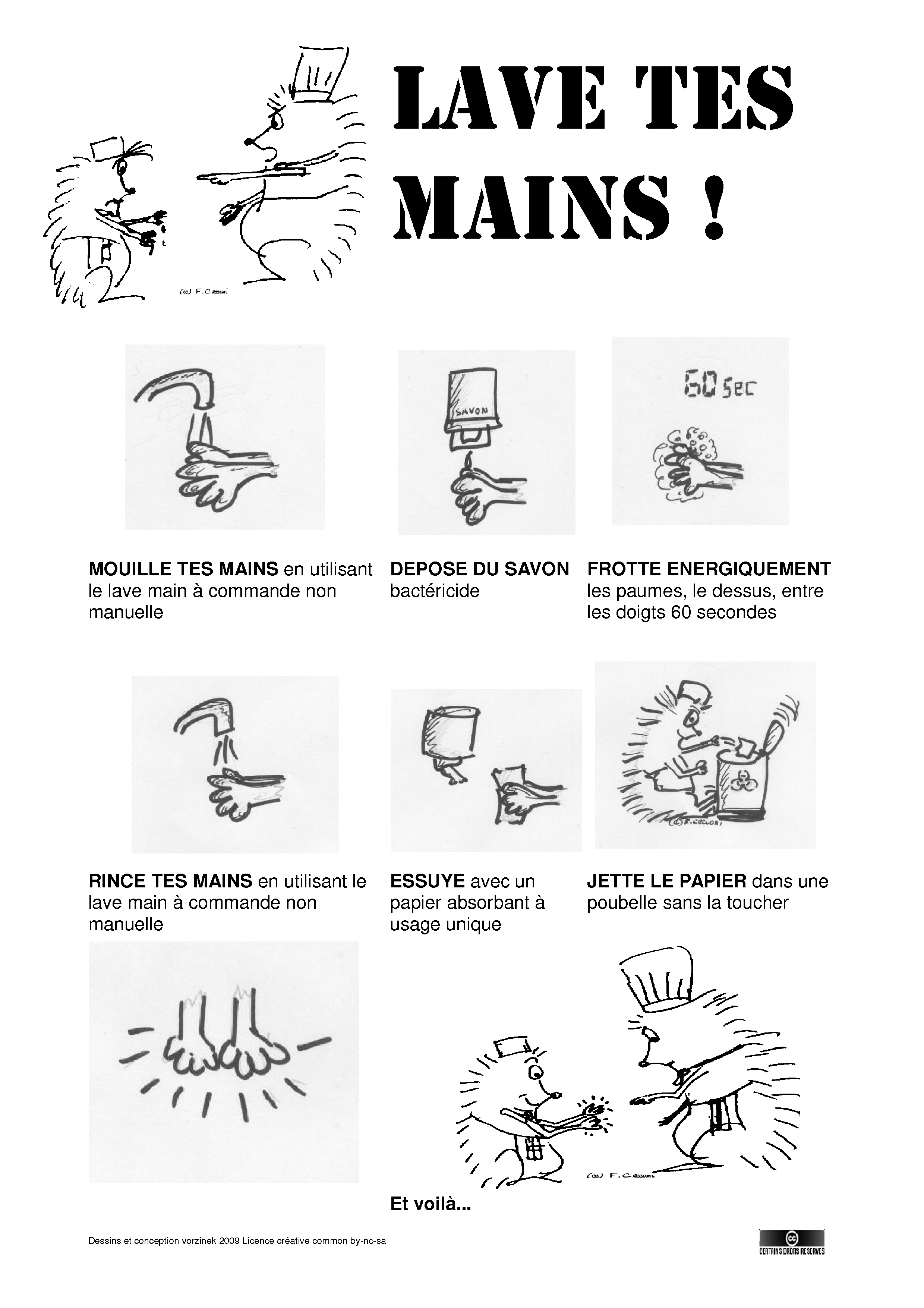 Hygienic hand washing protocol illustrated (in French)